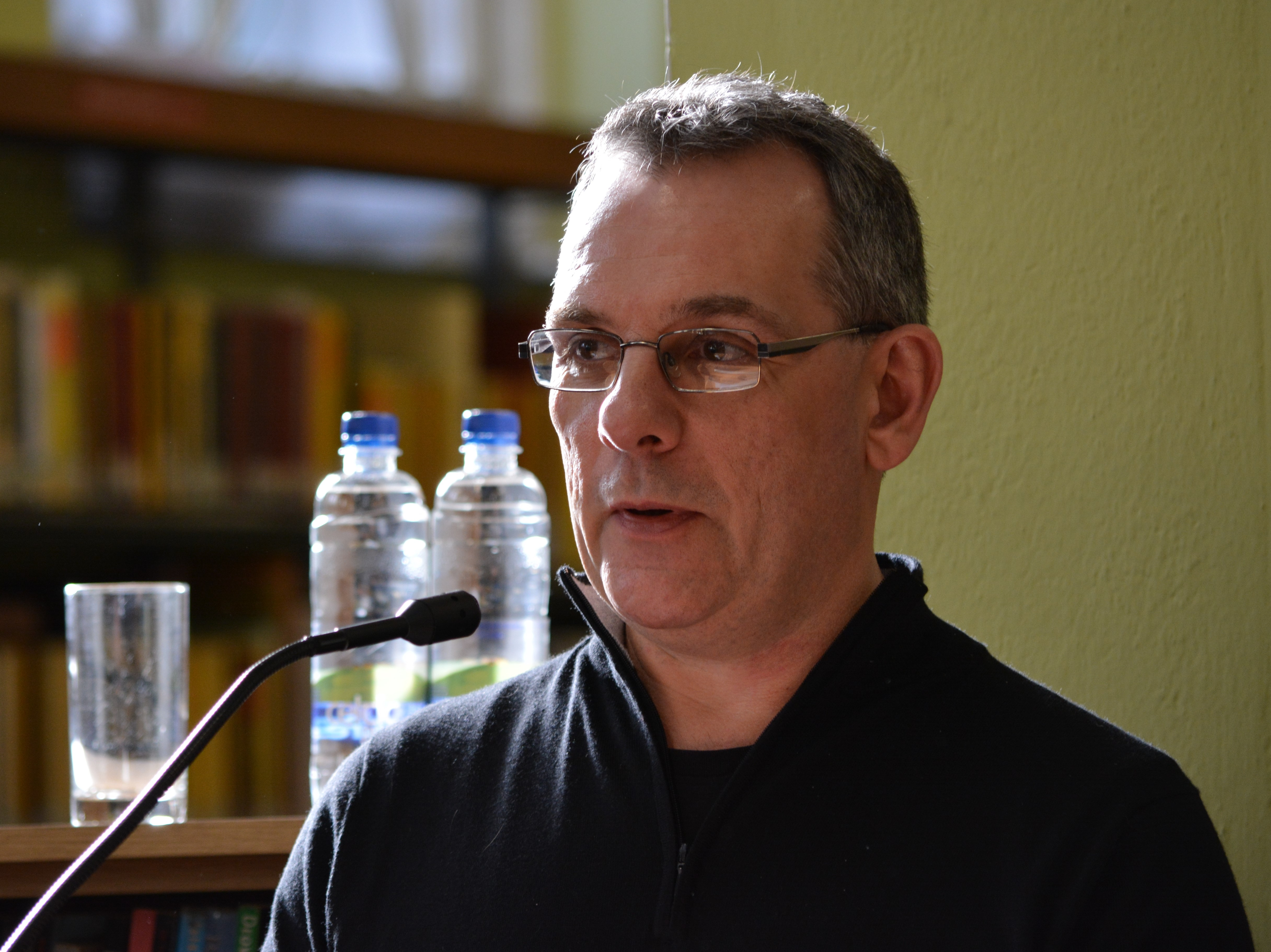 Irish writer and academic, Graham Allen, reading at the launch of his first collection of poetry, The One That Got Away.